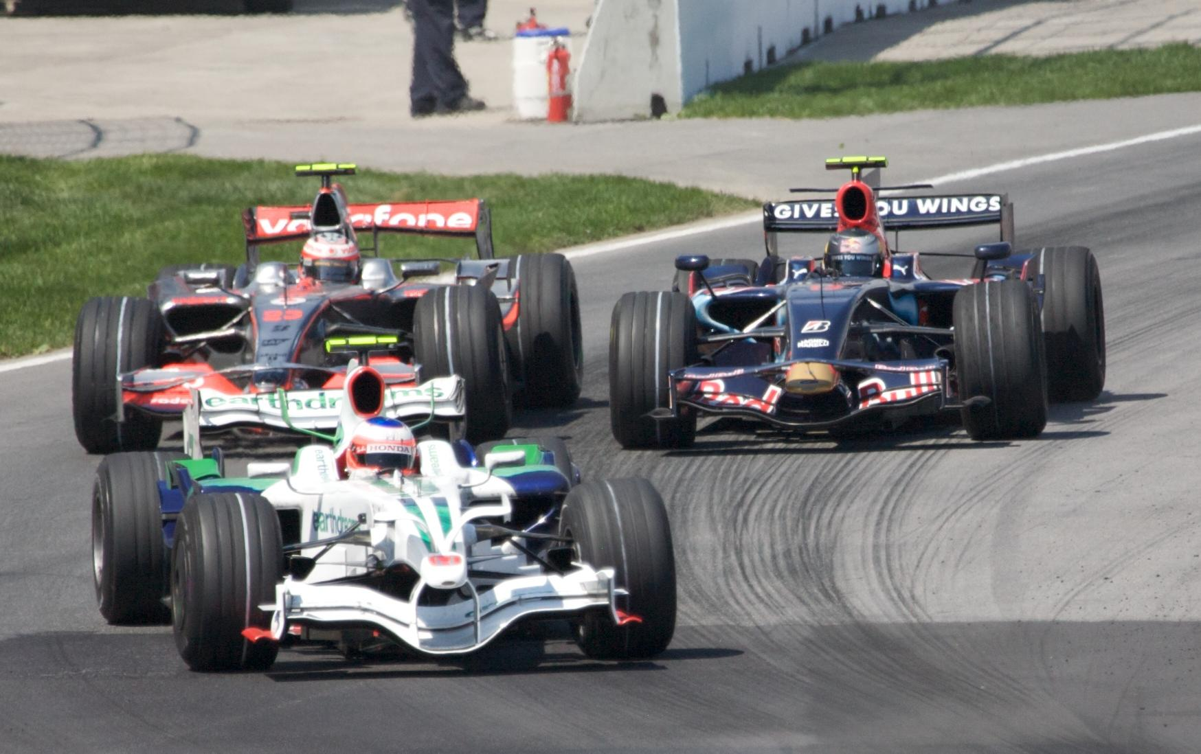 Rubens Barrichello (Honda F1), Sebastian Vettel (Scuderia Toro Rosso) and Heikki Kovalainen (McLaren) battle for position in the 2008 Canadian Grand Prix.